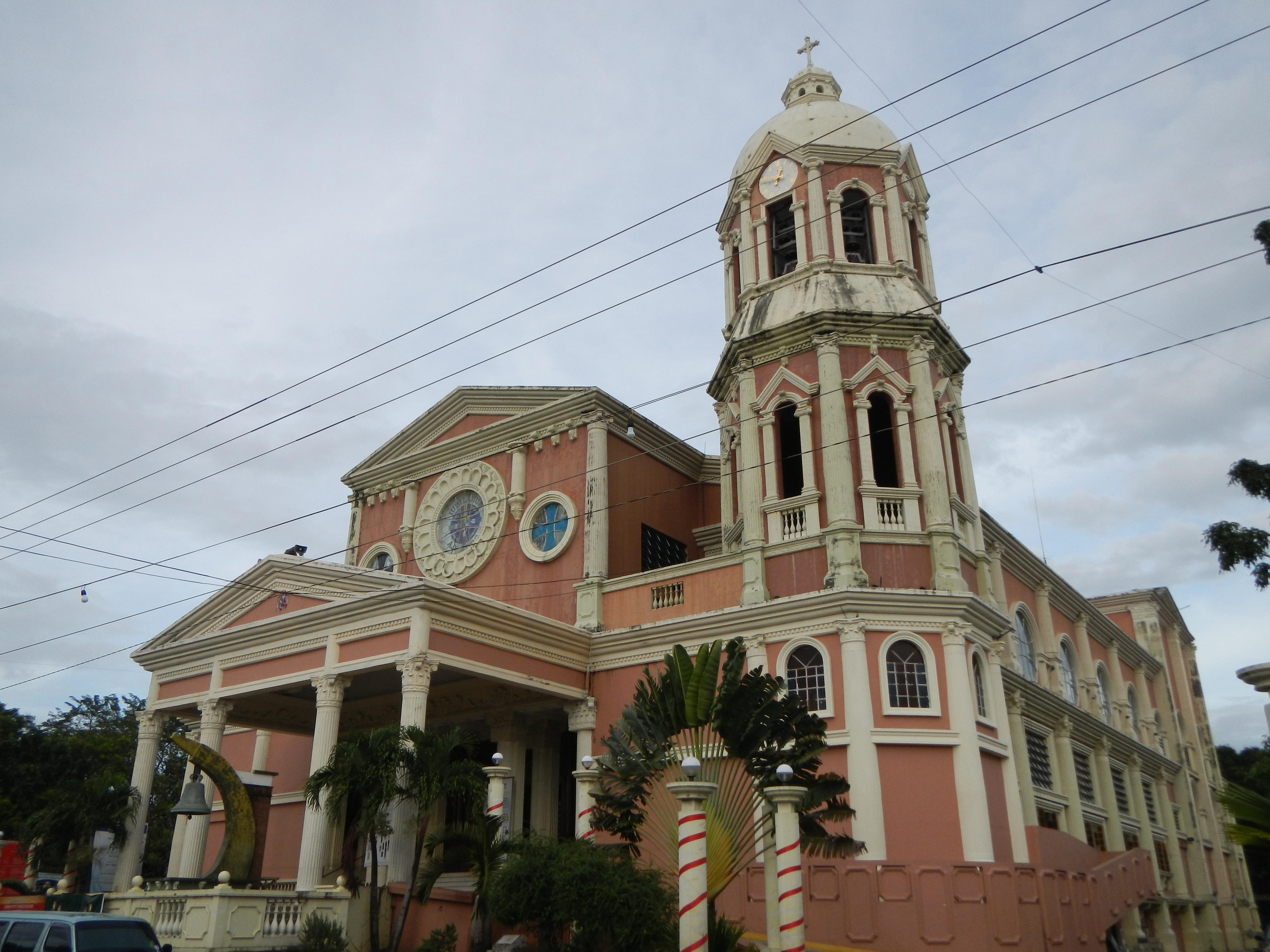 Upload Wizard photos of - Nasugbu, Batangas[1] - Archdiocesan Chancery - Parish Church of Saint Francis Xavier of Nasugbu solemnly dedicated on December 7, 2006, the 500th birthday of St. Francis Xavier[2] [3] Roman Catholic Archdiocese of Lipa Vicariate I – St. Francis Xavier.[4]